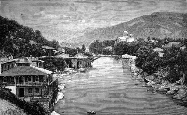 View of Kutaisi. A lithograph from the photography by Vestly and Nikitin